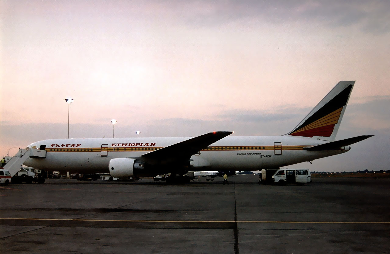 Ethiopian B767-33A-ER ET-AKW